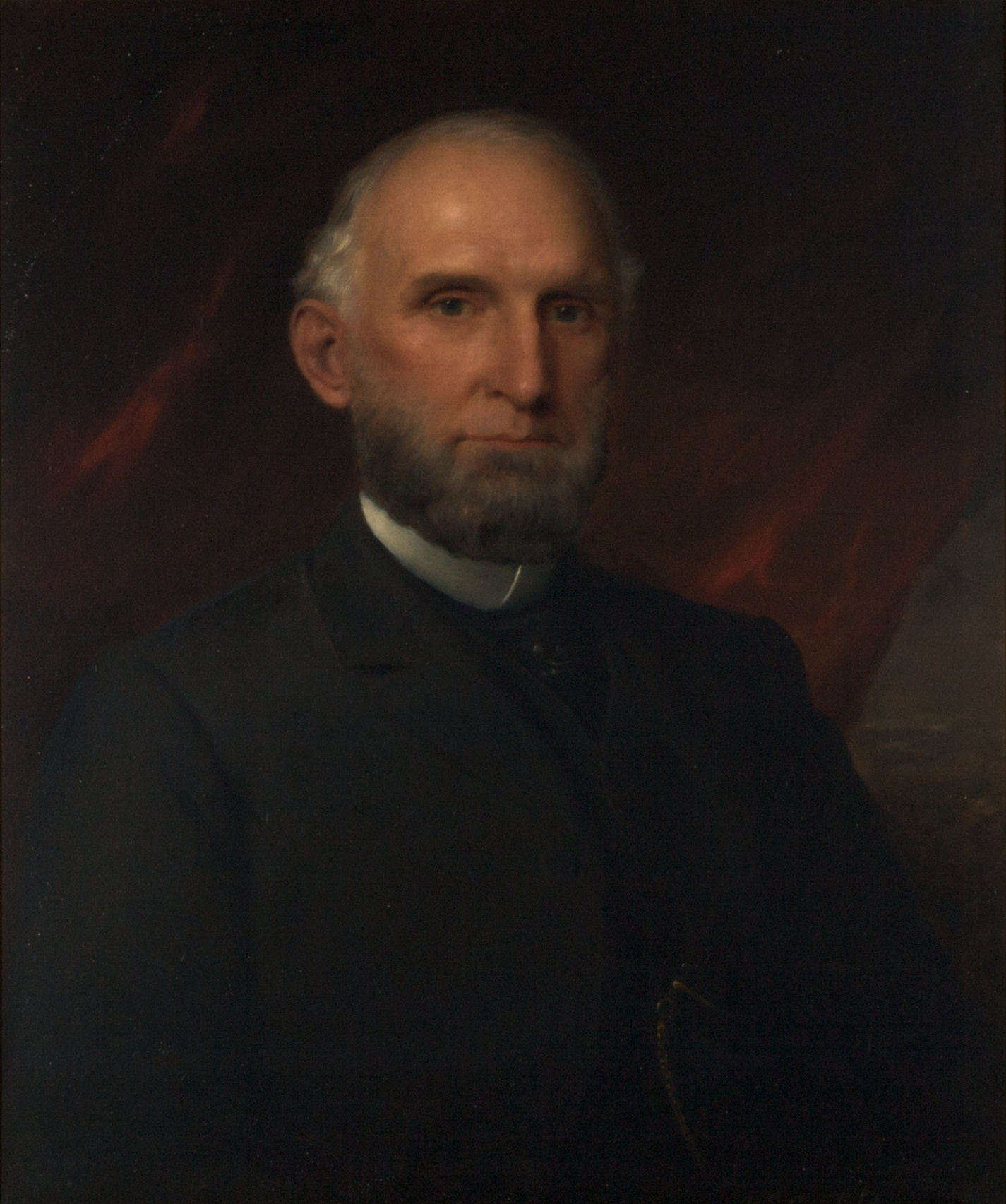 Oil on canvas portrait painting of Waller R. Staples